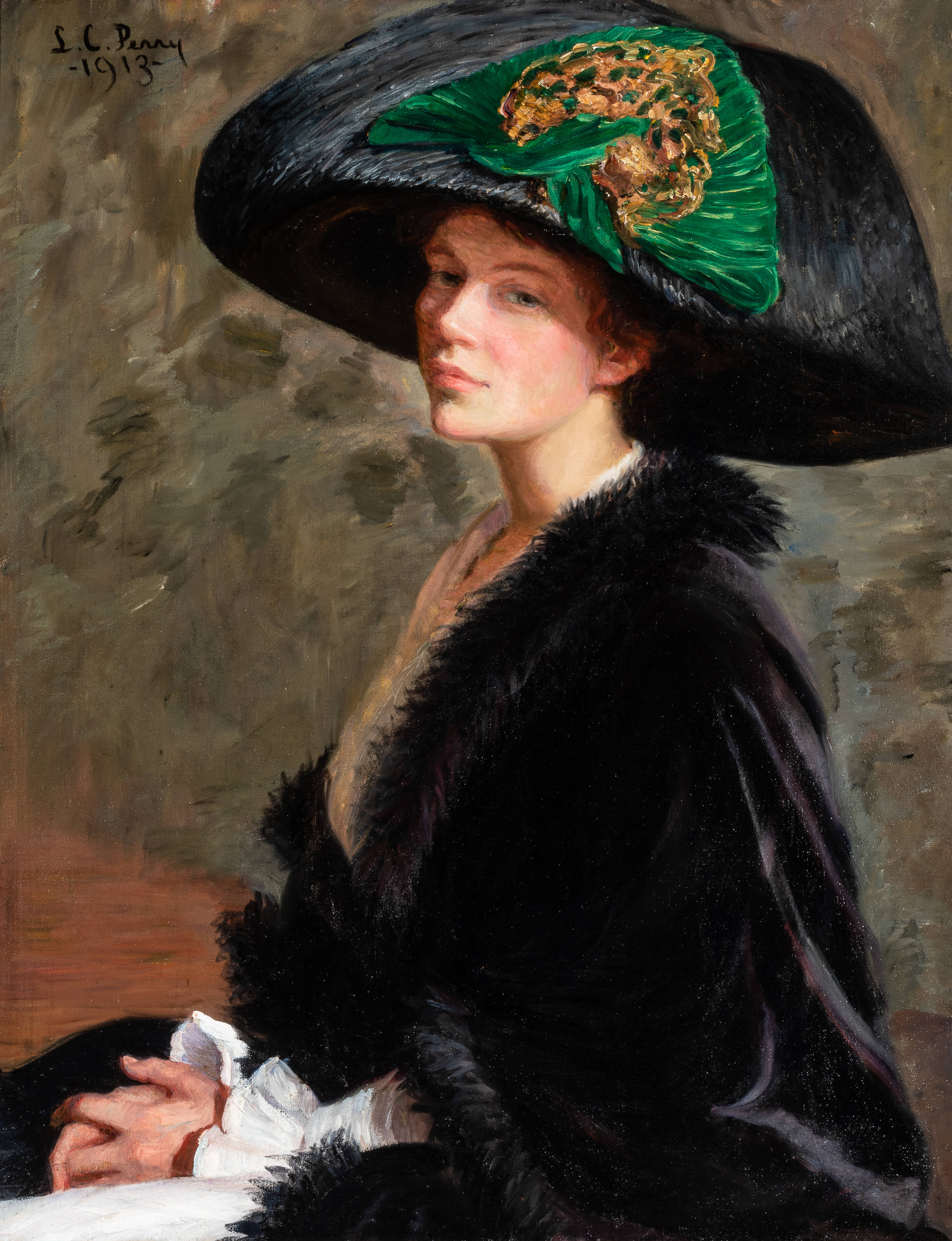 The Green Hat; selfportrait